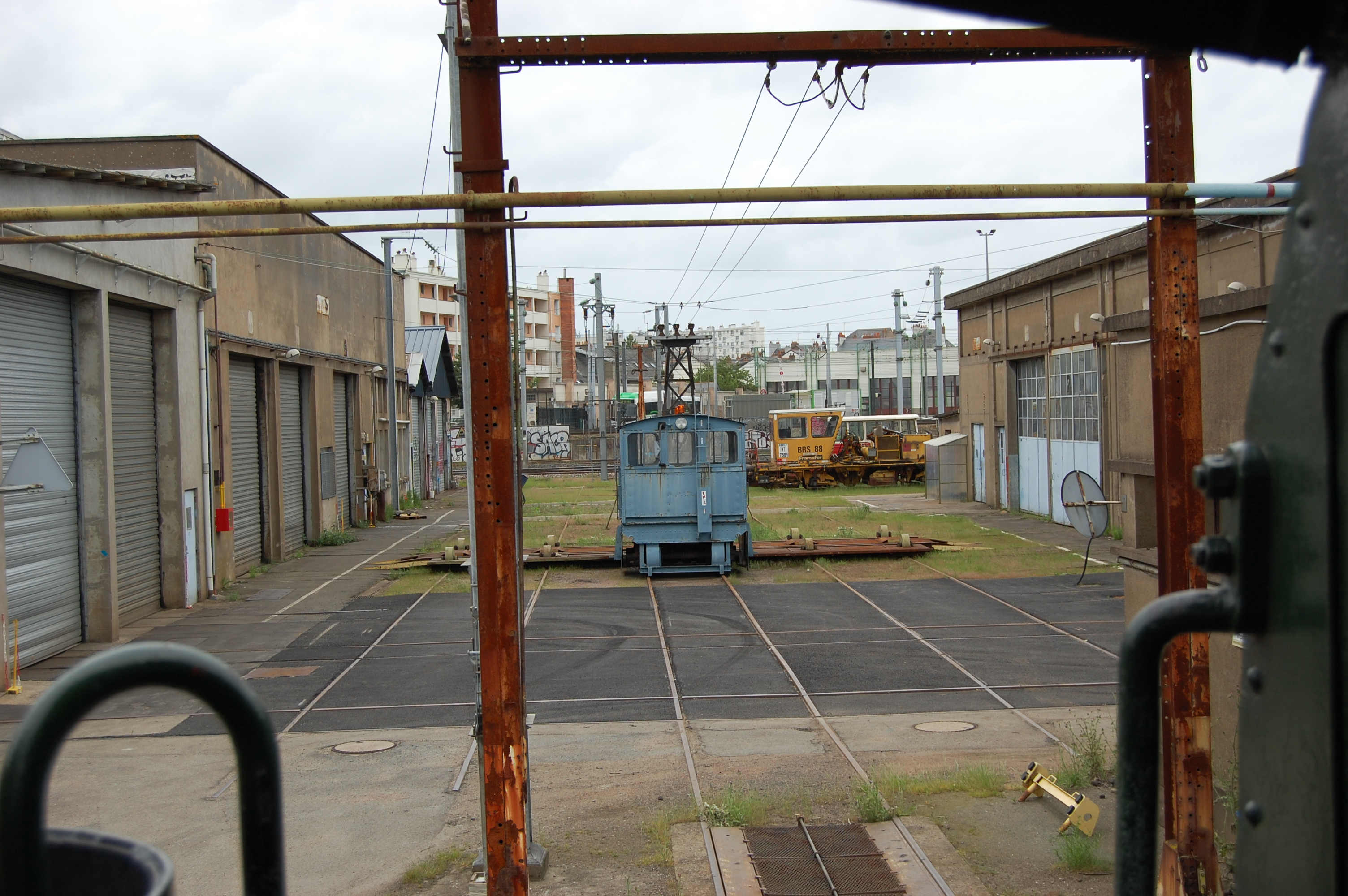 Transfer table in Nantes, France